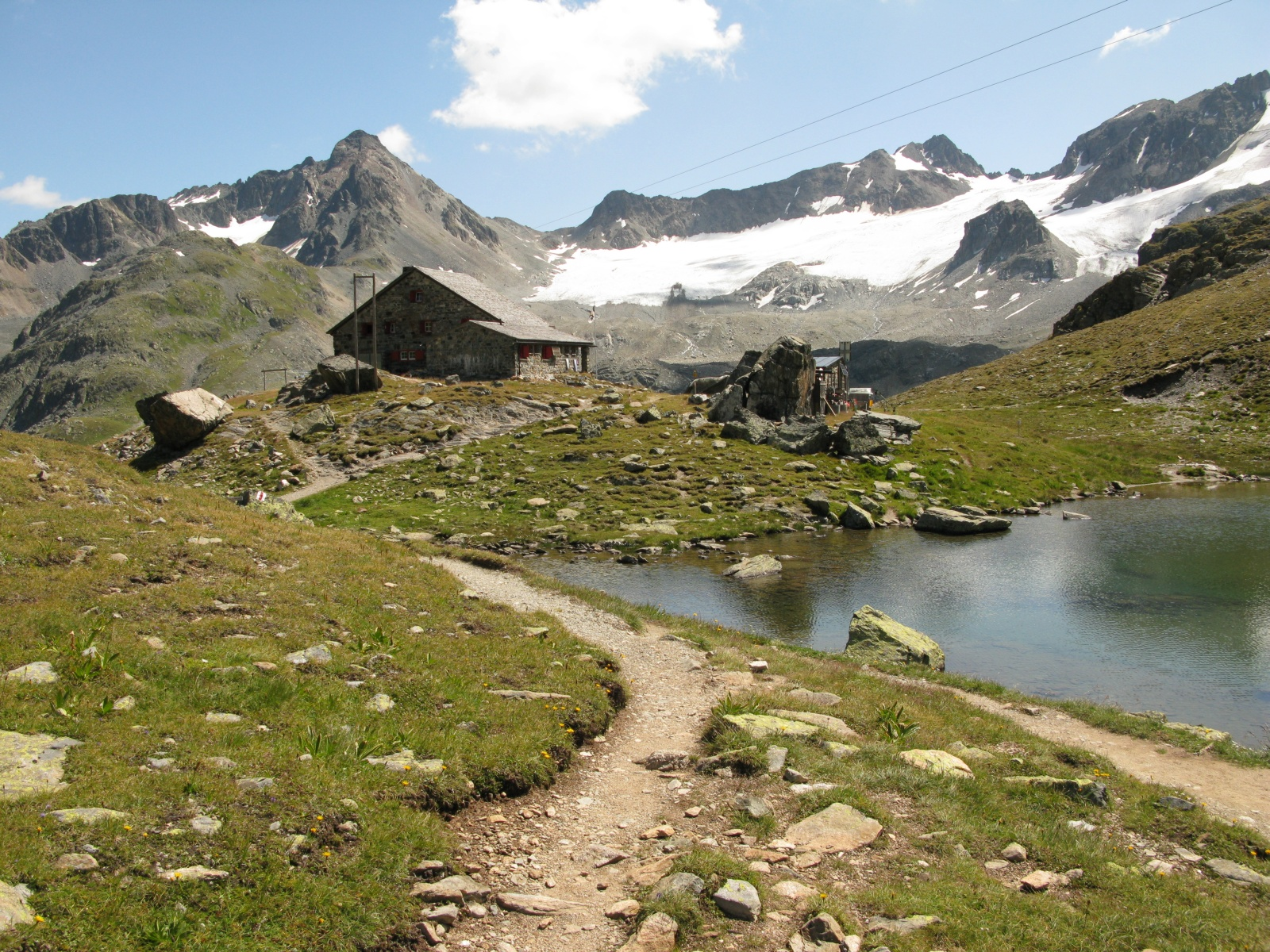 Grialetschhütte, an alpine hut of the Swiss Alpine Club (SAC) at 2542 m near Flüela pass, above Davos, Graubünden, Switzerland.